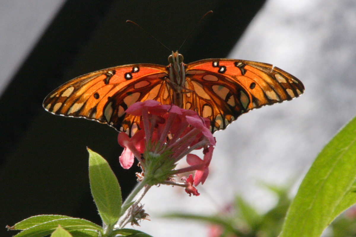 Agraulis vanillae (Gulf Fritillary), North & Central America, Monsanto Insectarium, St. Louis Zoo